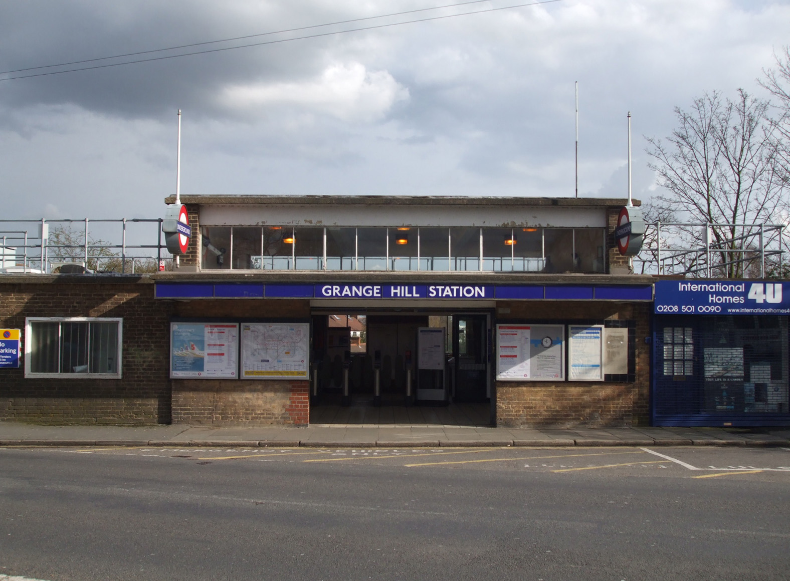 Grange Hill tube station entrance on the B173 Manor Road. Sunil060902, 30th March 2008.